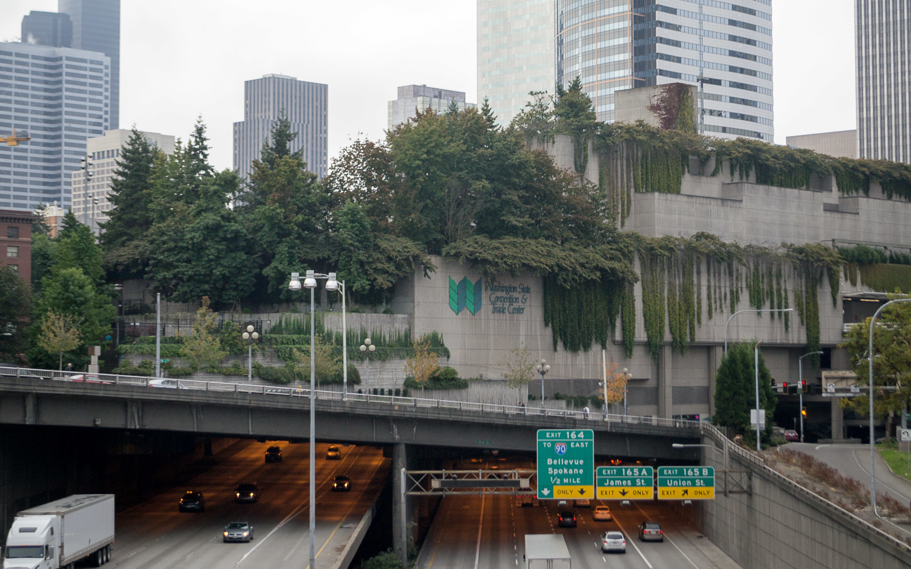 The Washington State Convention and Trade Center as seen from Pine Street and Boren Avenue